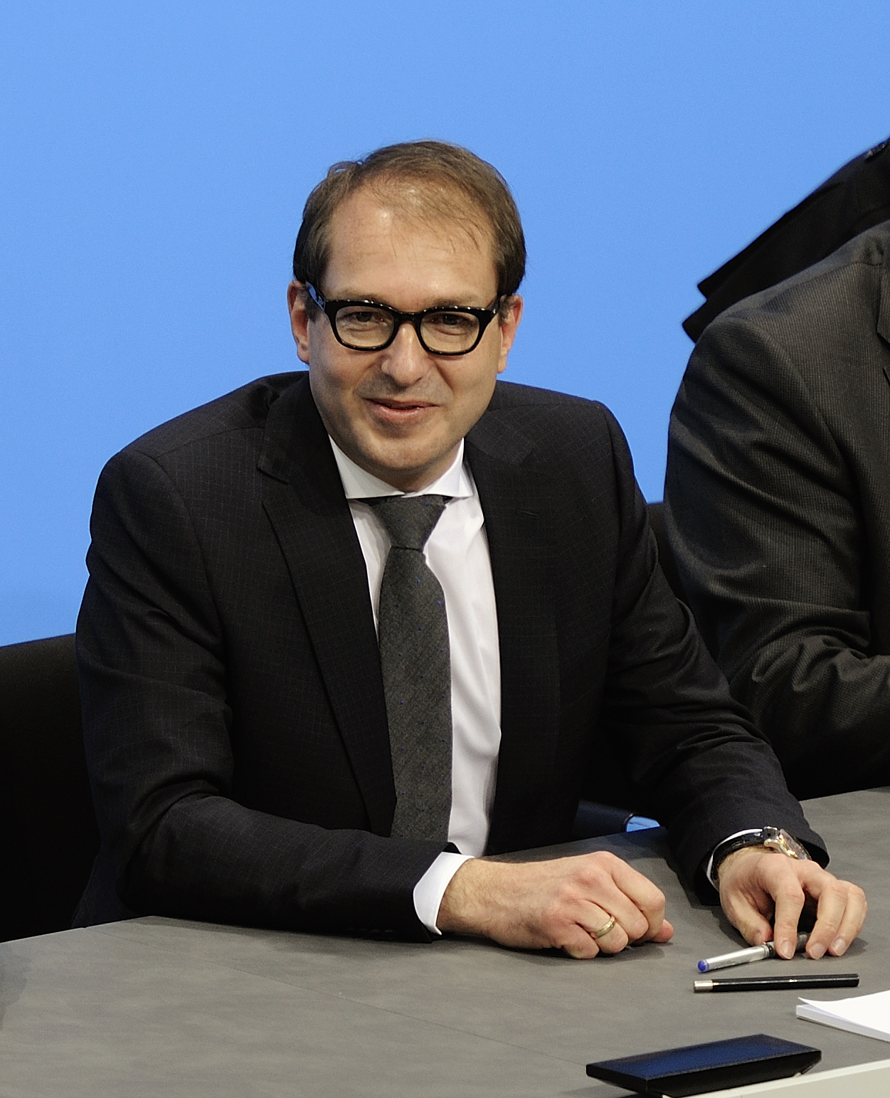 Signing of the coalition agreement for the 18th election period of the Bundestag. Alexander Dobrindt.